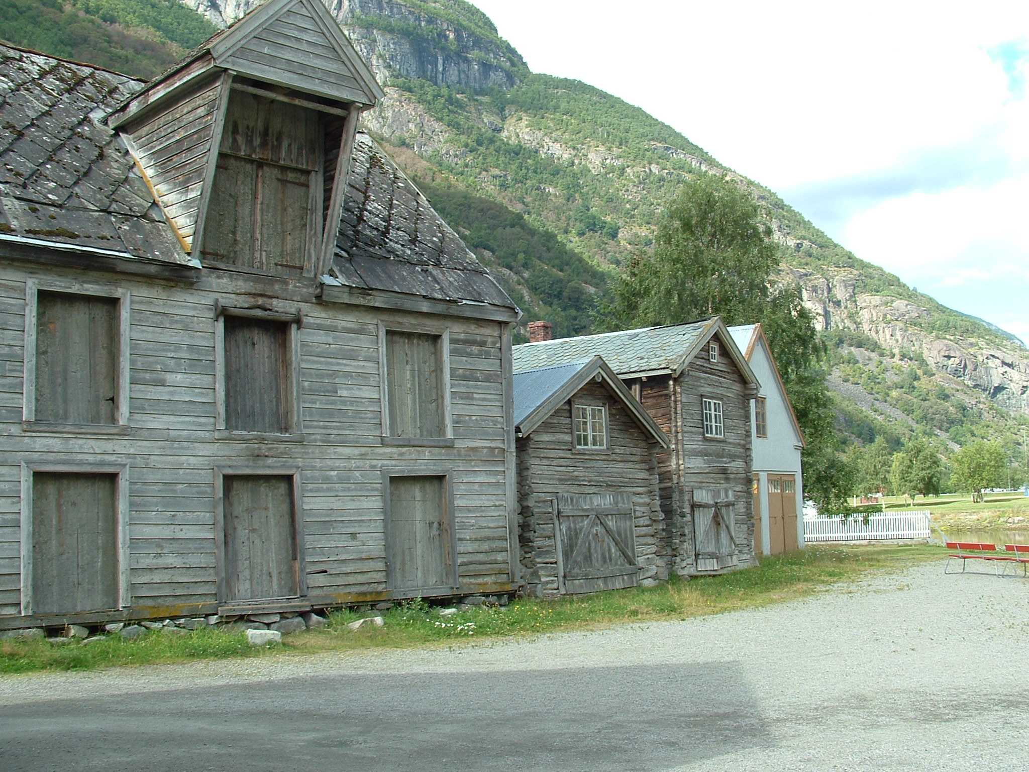 Originally maritime buildings, now more than 200 meters ashore, because of stonedumping from tunnel-works near by. Part of a protected environment. (Lærdalsøyri, Sogn og Fjordane, Norway